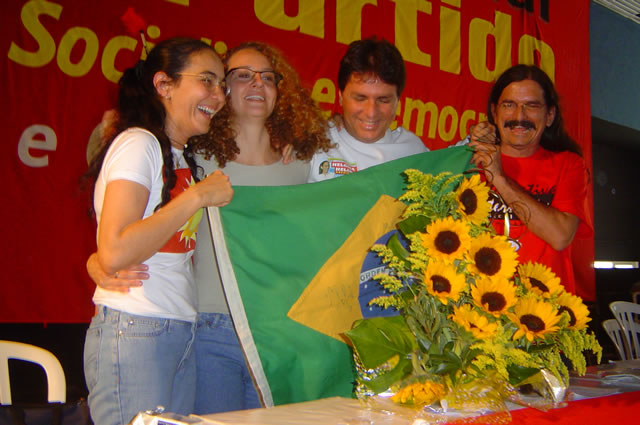 Fundação do PSOL